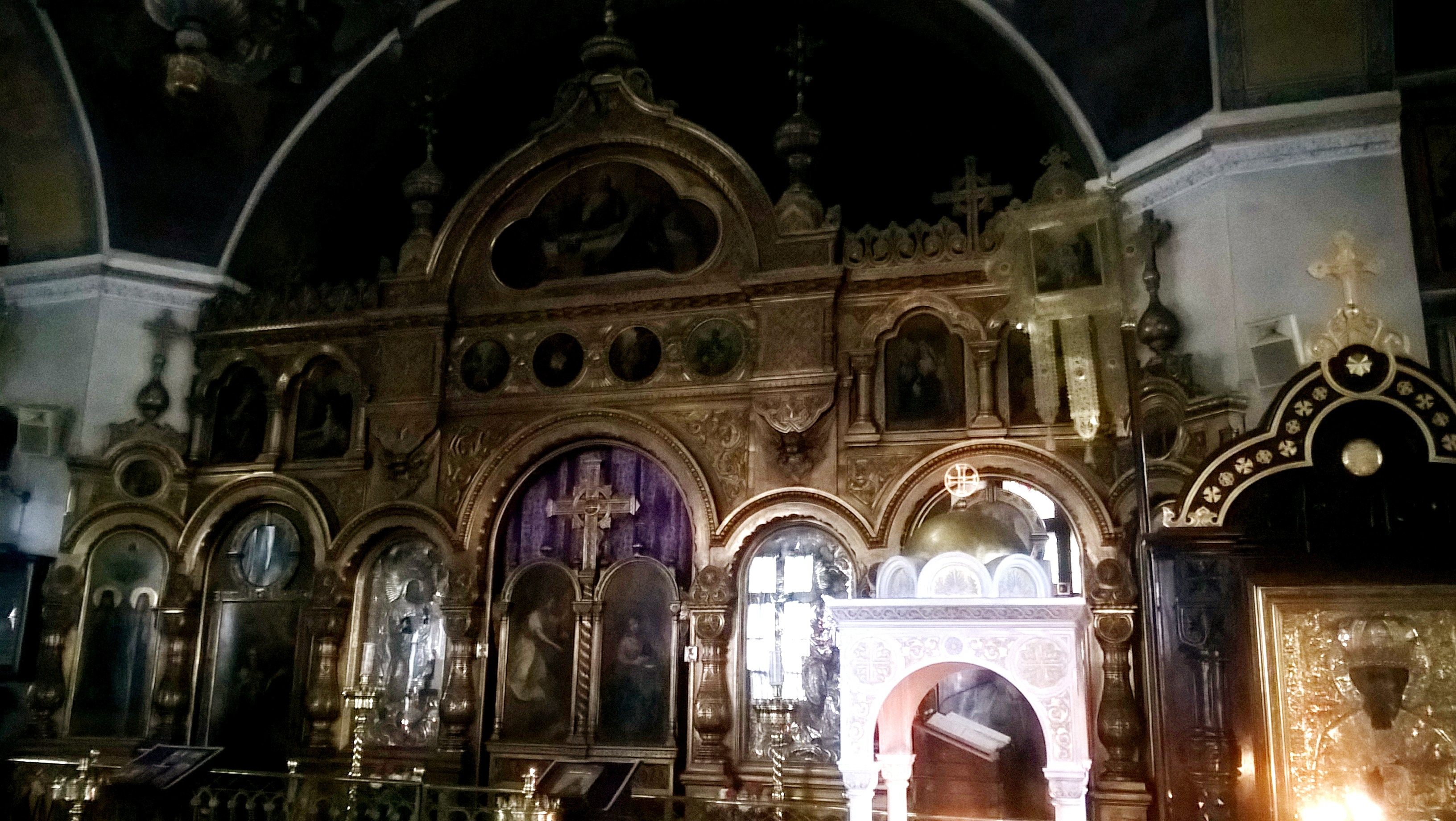 Iconostasis of St. Nicholas Orthodox church in Tallinn's Old Town